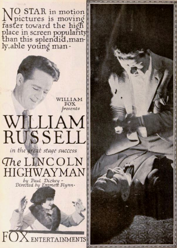 Advertisement for the American mystery film The Lincoln Highwayman (1919) with William Russell and Lois Lee (1892 – 1967), on page 18 of the December 20, 1919 Exhibitors Herald.